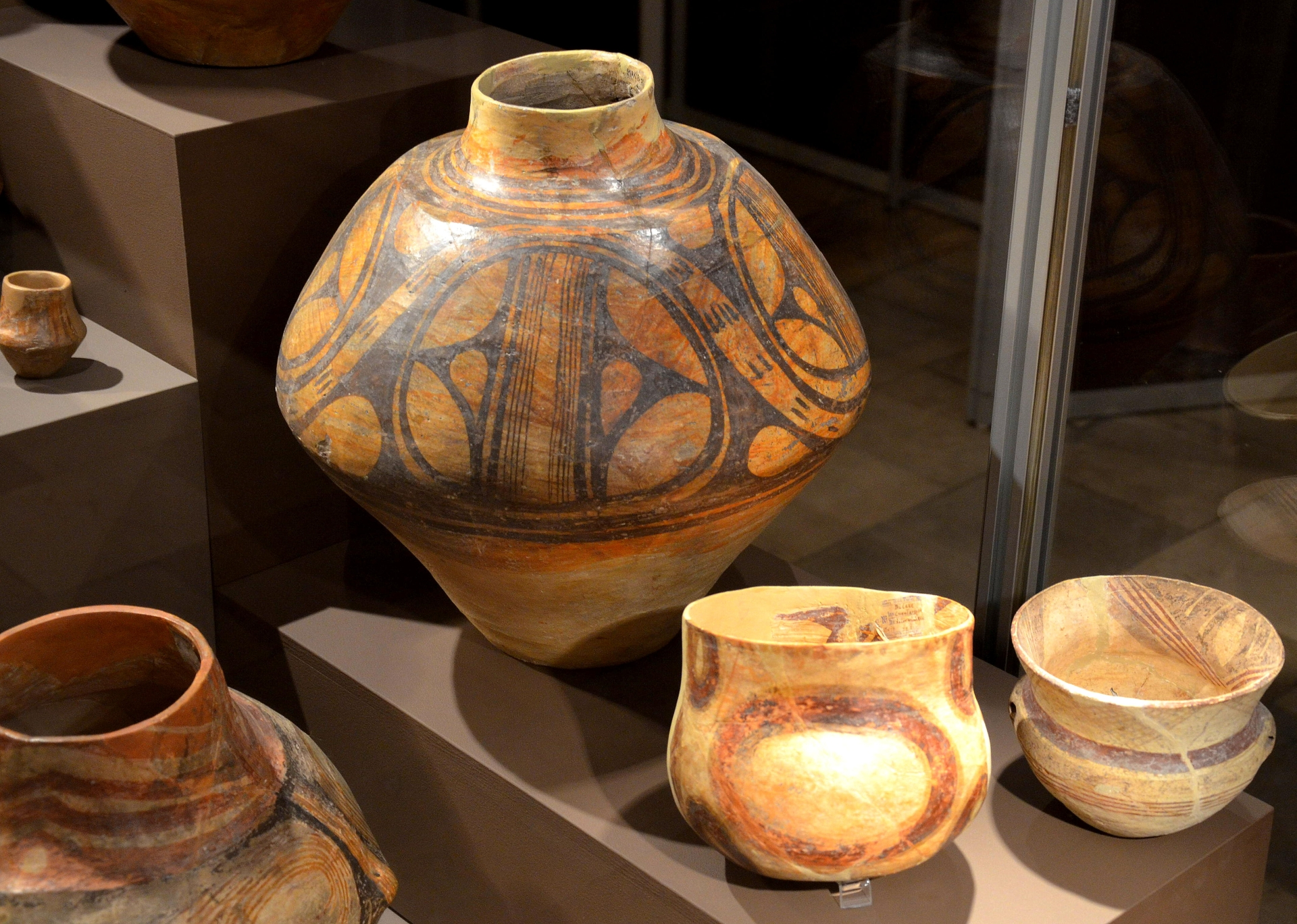 Die bemalte Keramik des dritten Jahrtausends von der Cicuteni-Kultur beim Dorfe Biltsche-Solote